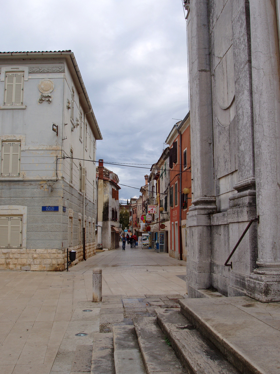 Umag, Croatia. Pedestrian street; view from the main square. Taken by me on September 2006. Mariano 11:51, 3 October 2006 (UTC)